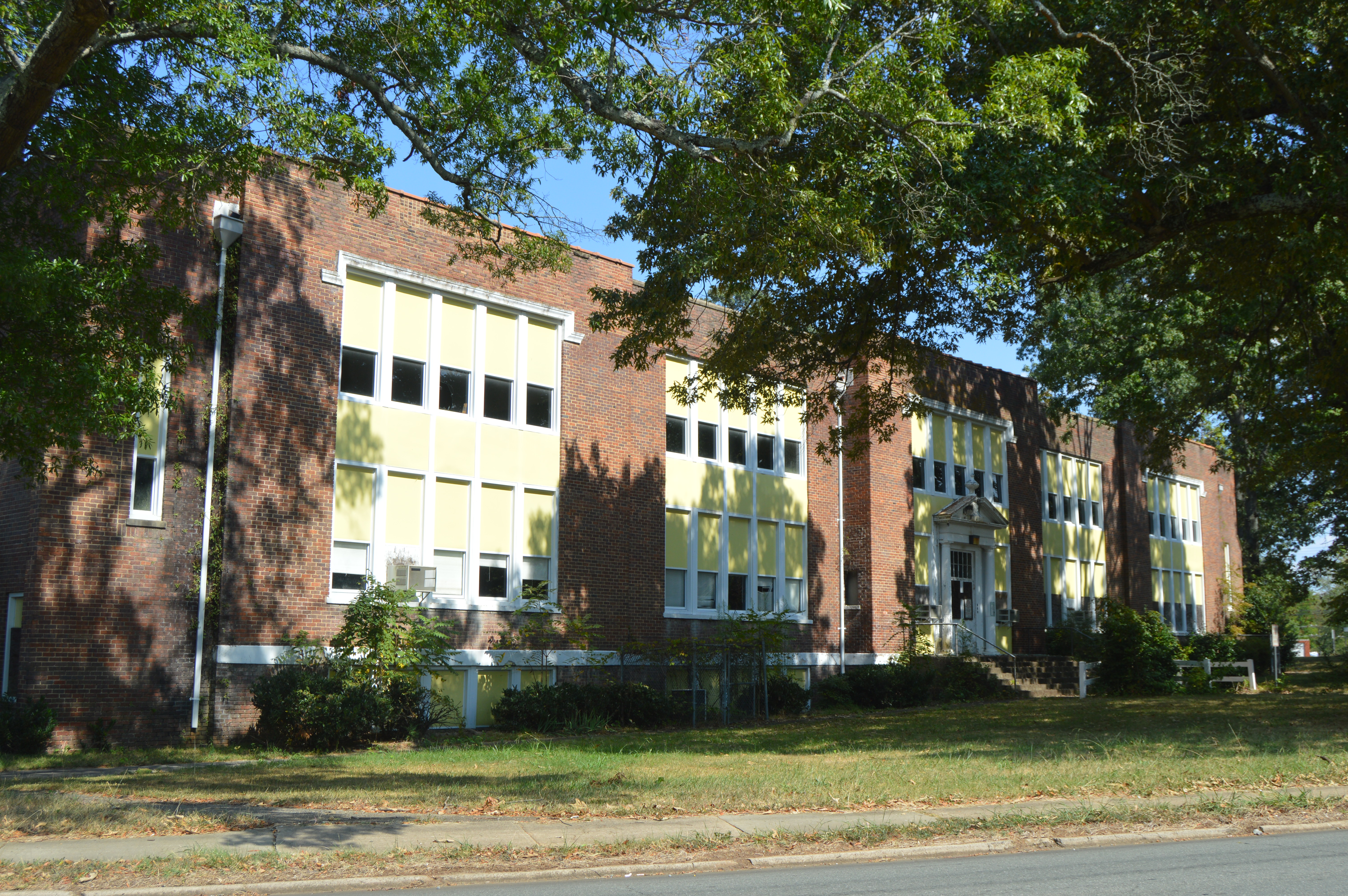 Front of the Gibsonville School, located at 500 Church Street (North Carolina Highway 61) in Gibsonville, North Carolina, United States. Built in 1924, it is listed on the National Register of Historic Places.